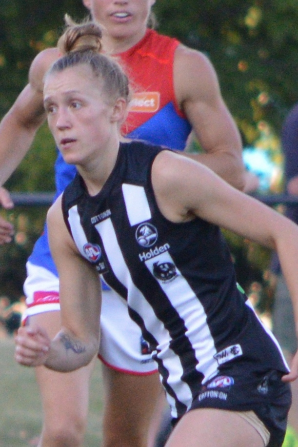 Darcy Guttridge with Collingwood during an AFL Women's practice match against Melbourne in January 2018